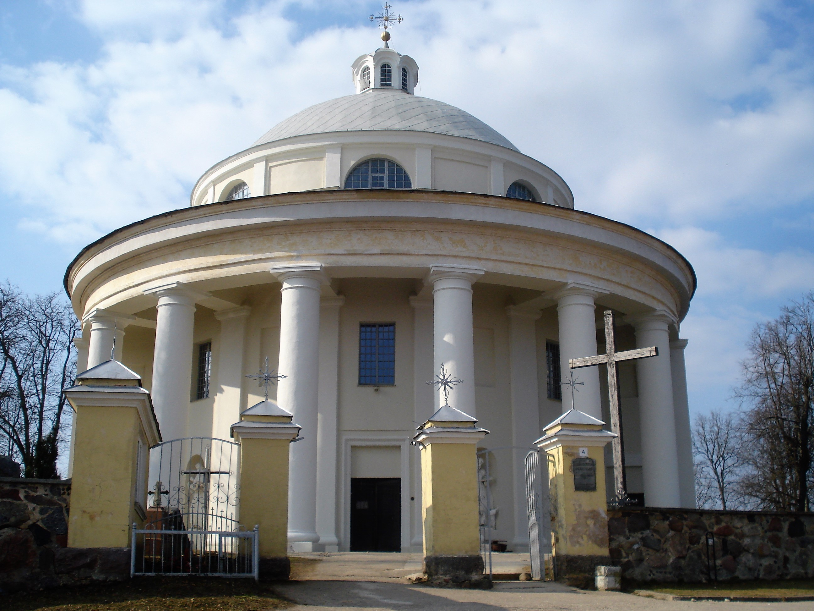 Holy Trinity Church in Sudervė 1803–1822